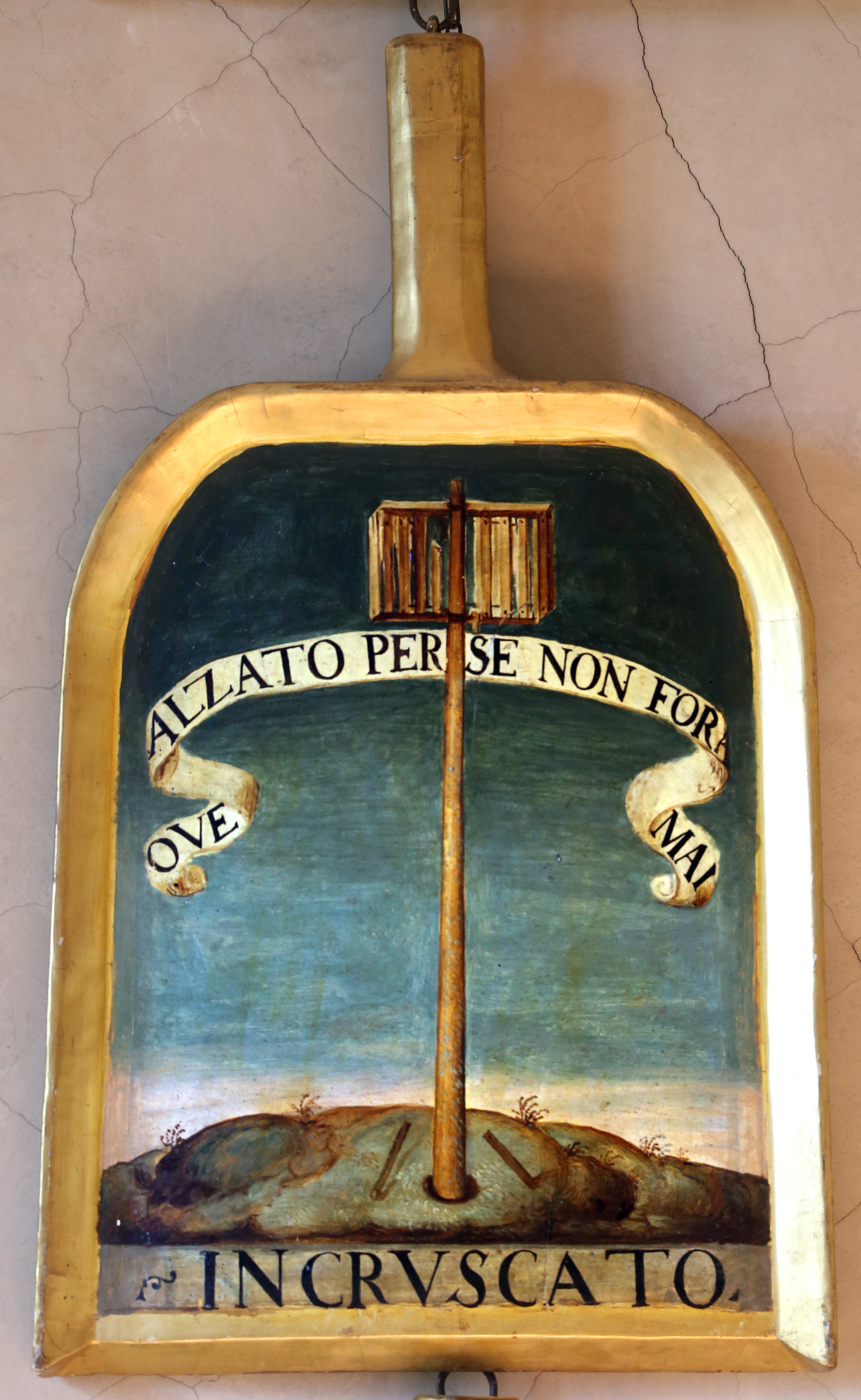 Shovels of Accademici della Crusca